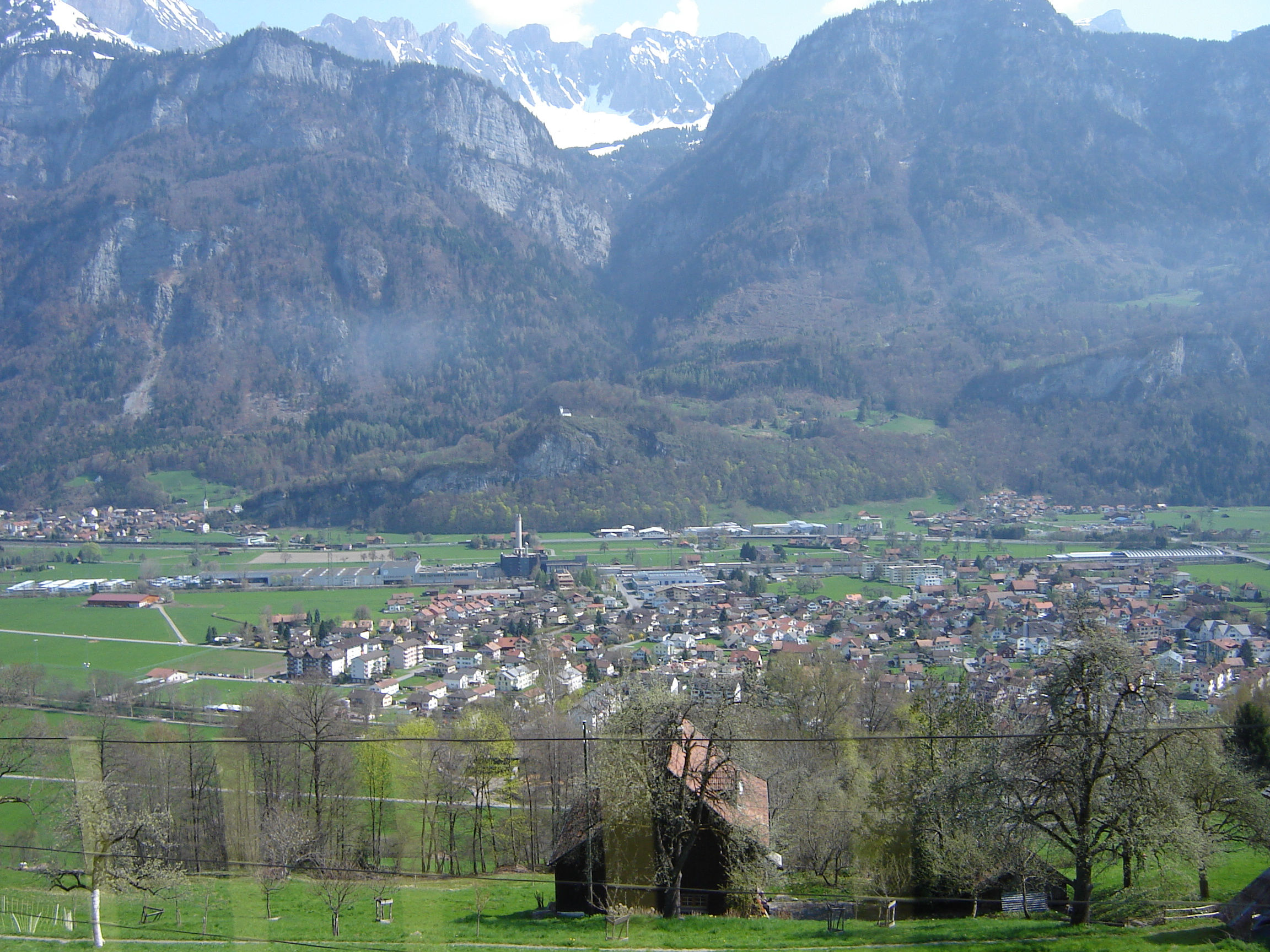 The town of Flums in Switzerland, in the Canton of St. Gallen.